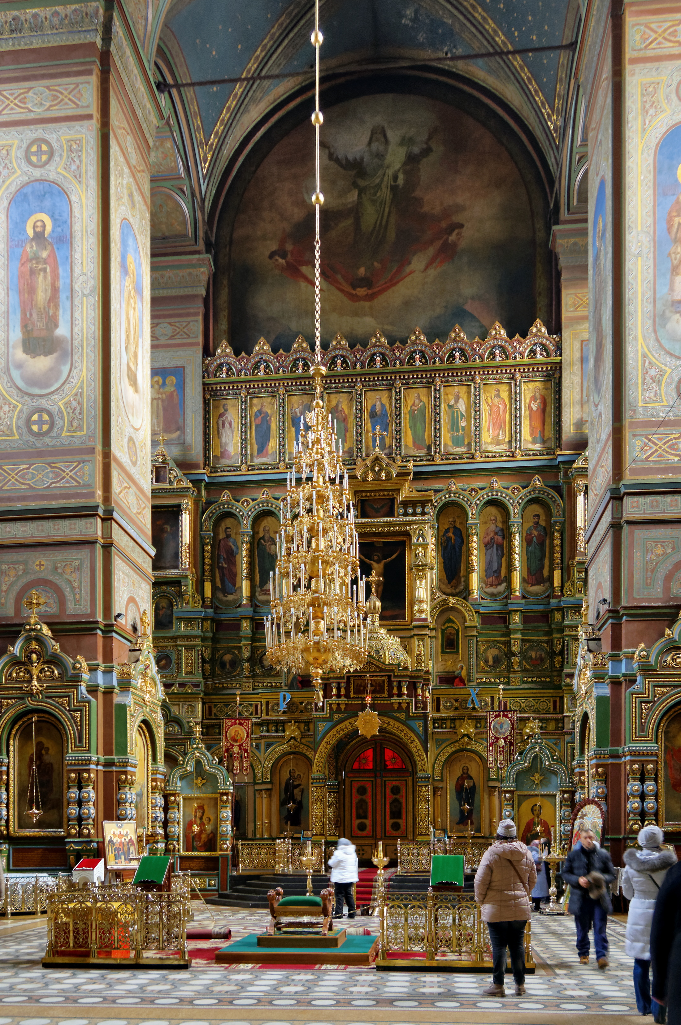 Yelets. Church of the Ascension